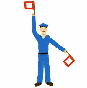 Letter V of the nautical semaphore flag signalling system Source: Martin Hawlisch (User:LosHawlos) My own drawing done in gimp First uploaded to de: in jun-2004